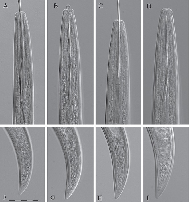 Xiphinema parasimile. A-D, Anterior region of fi rst, second, third and forth juvenile stages; E, Female anterior end; F-I, Tail of first, second, third and forth juvenile stages; J, Female tail. Scale bar: A-J, 20 μm.